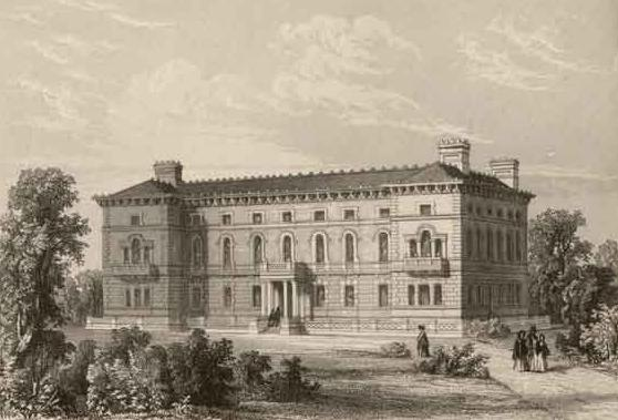 Orphan Working School Haverstock Hill, London - old print